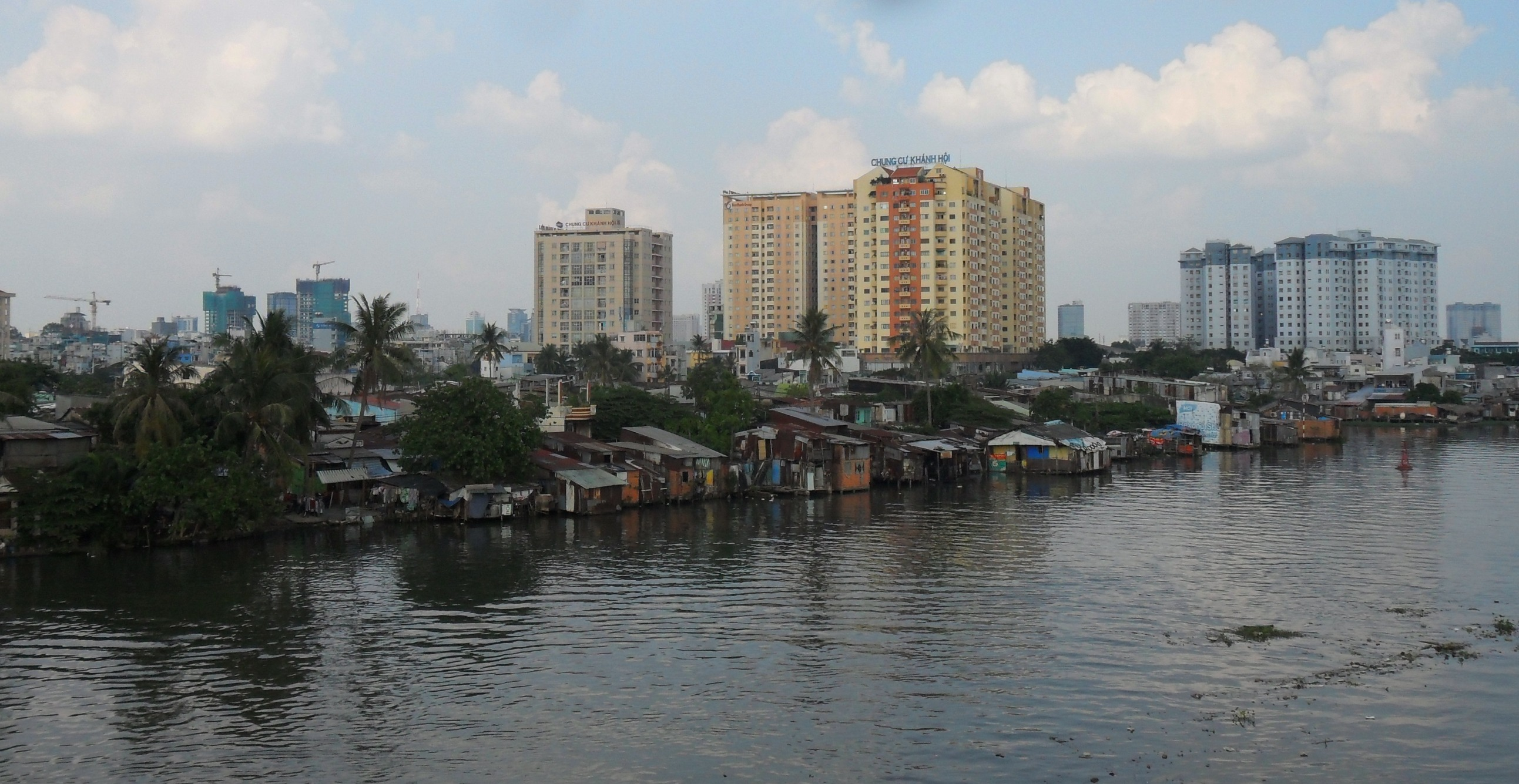 a part of Ho Chi Minh City, Vietnam